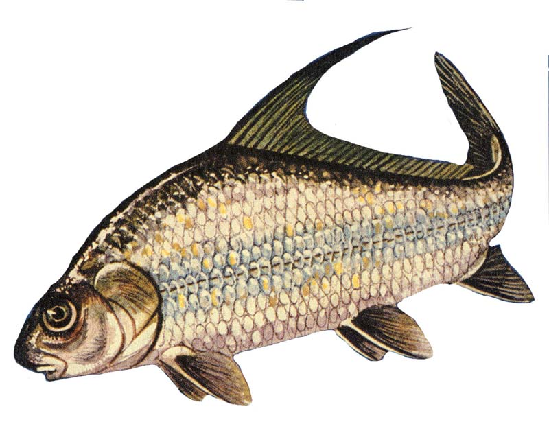 From Great Lakes Environmental Research Laboratory